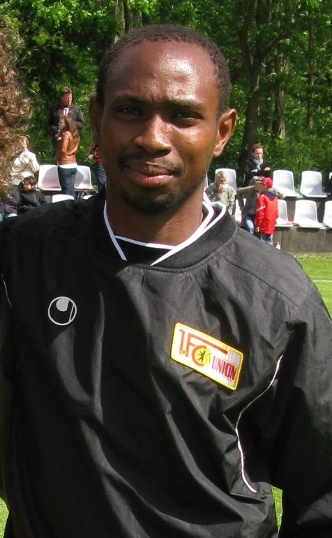 The Burkinabé football player Patrick Zoundi playing for 1. FC Union Berlin.